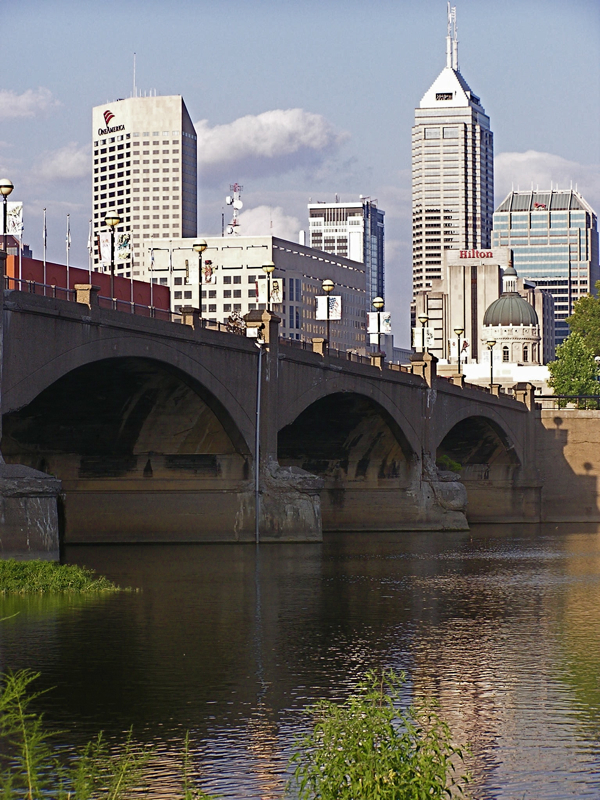 White river; Indianapolis, Indiana, July 2008.